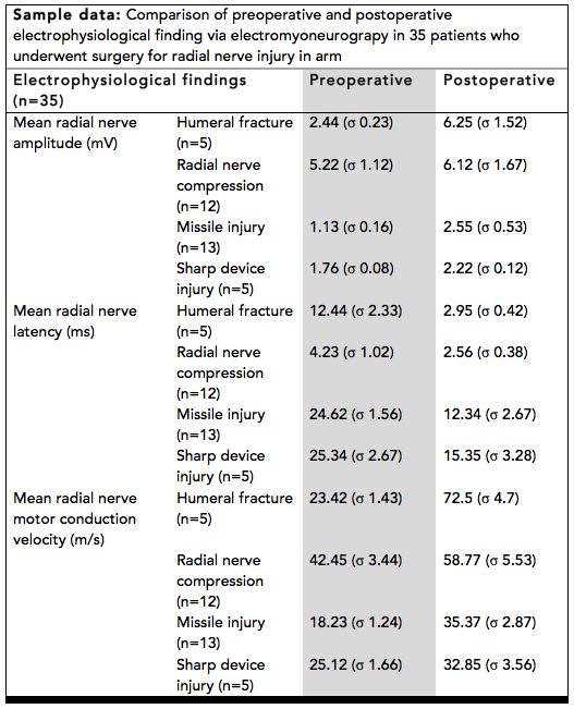 This is sample data table for electrophysiological findings based on electromyoneurography taken from 35 patients who underwent surgery for radial nerve injury in arm